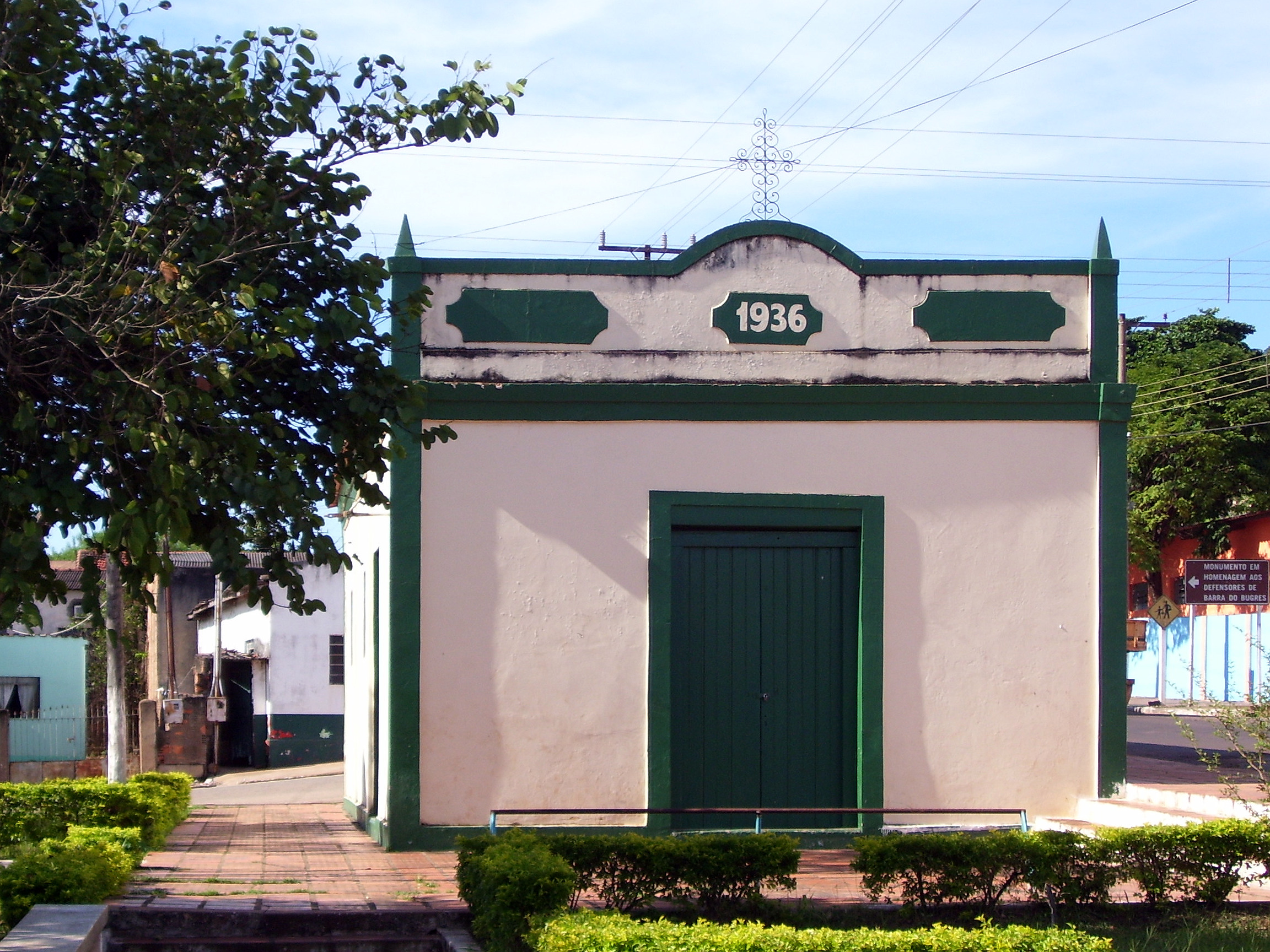 Church of Holy Cross, located in Barra do Bugres, Mato Grosso, Brazil.